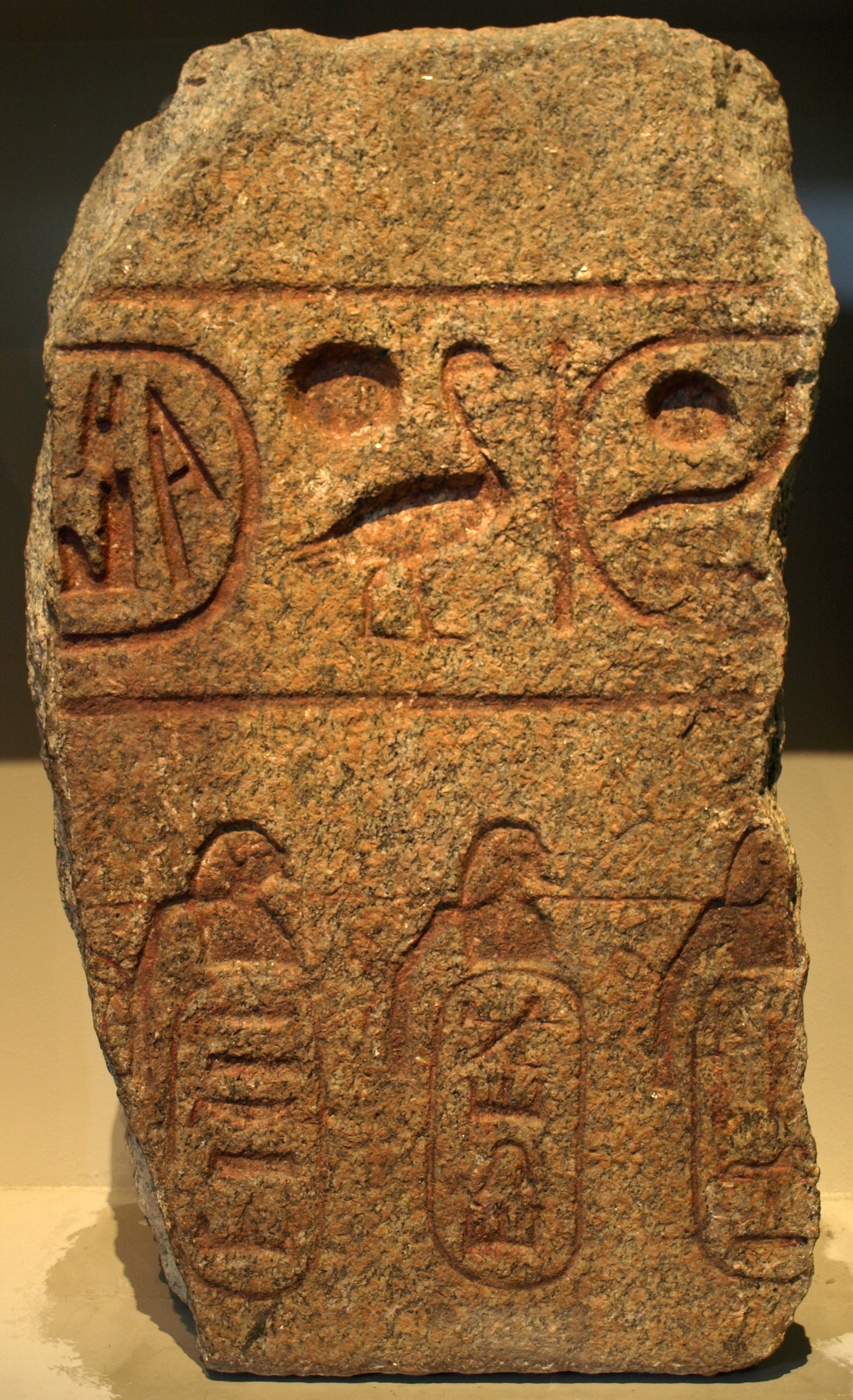 A red granite block depicting foreign towns captured during the reign of Ramesses II. They are: Iter (in Nubia), Meshwesh (a Libyan ethnic group), and Keshkesh (a town on southern coast of the Black Sea). Originally from Bubastis, 19th dynasty, circa 1250 BC. EA 1104.